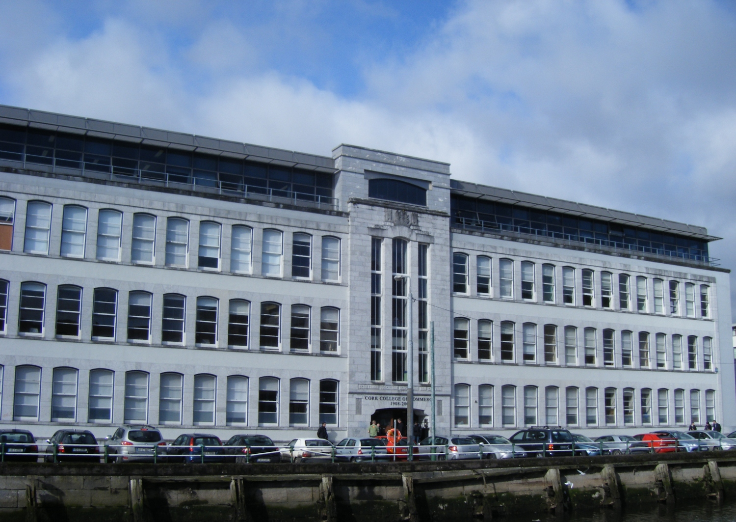 An image of the Cork College of Commerce, a Further Education institution in Cork, Republic of Ireland